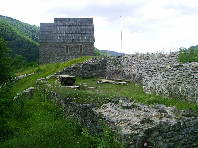 Bobovac Fortress, Bosnia and Herzegovina